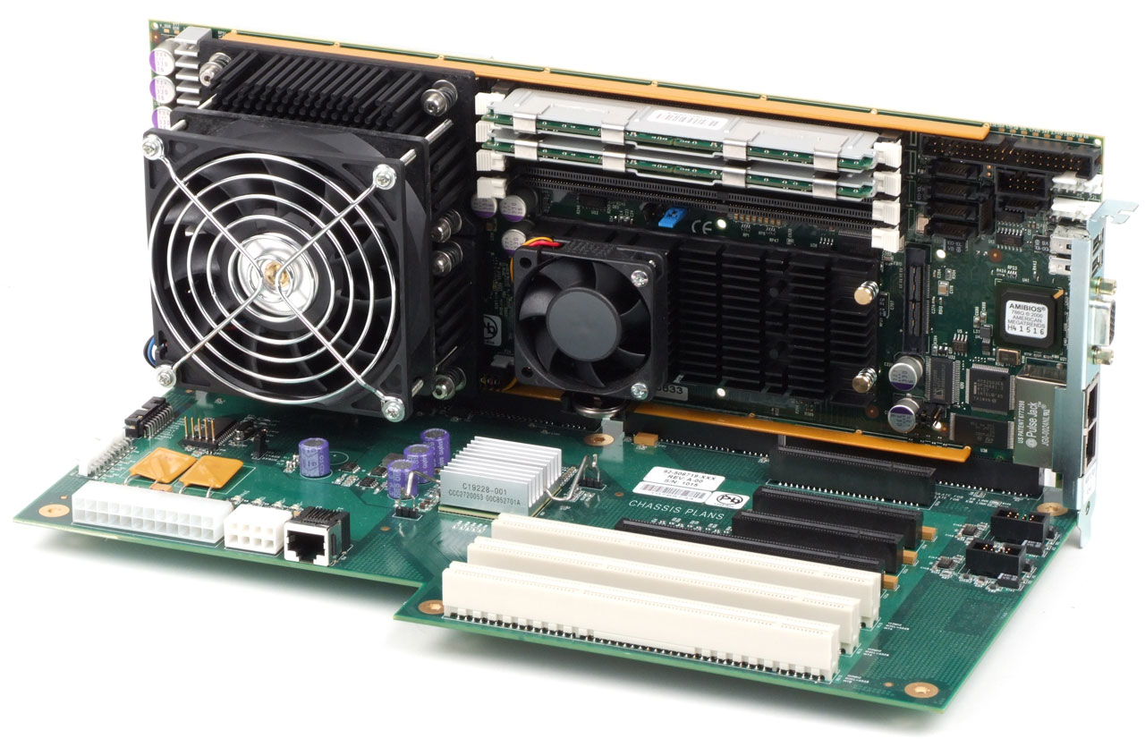 Chassis Plans SBC and Backplane Author: David Lippincott for Chassis Plans URL: A single board computer installed into a passive backplane. I am the author and release this image into the public domain.